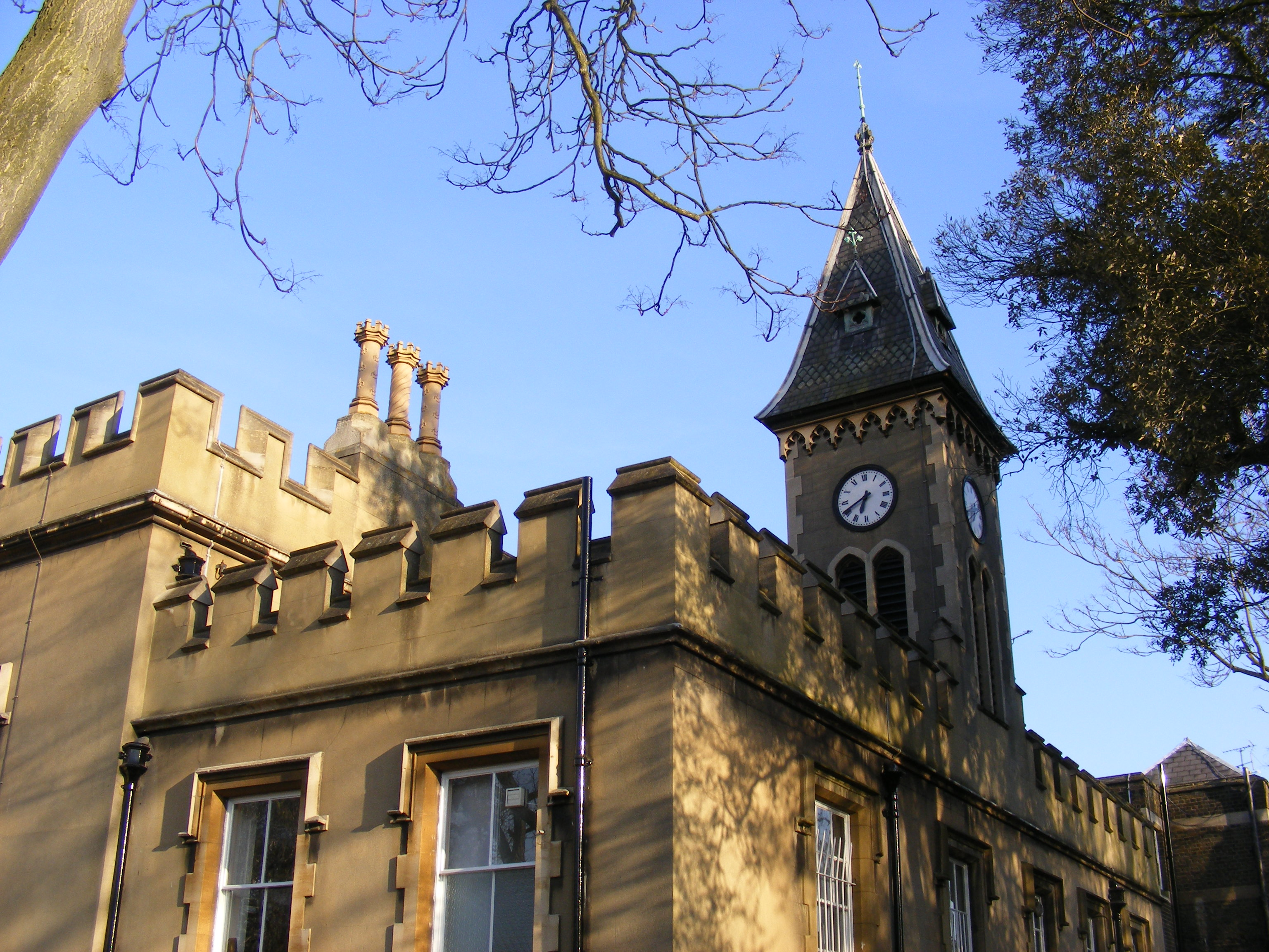 A view of a tower of the Strawberry Hill gothic house.